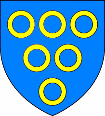 Arms of Musgrave of Musgrave, Hartley and Edenhall in Cumberland: Azure, six annulets three, two, one, or (Source: Jefferson, Samuel, History and Antiquities of Leath Ward: in the County of Cumberland, Carlisle, 1840, p.411[1])